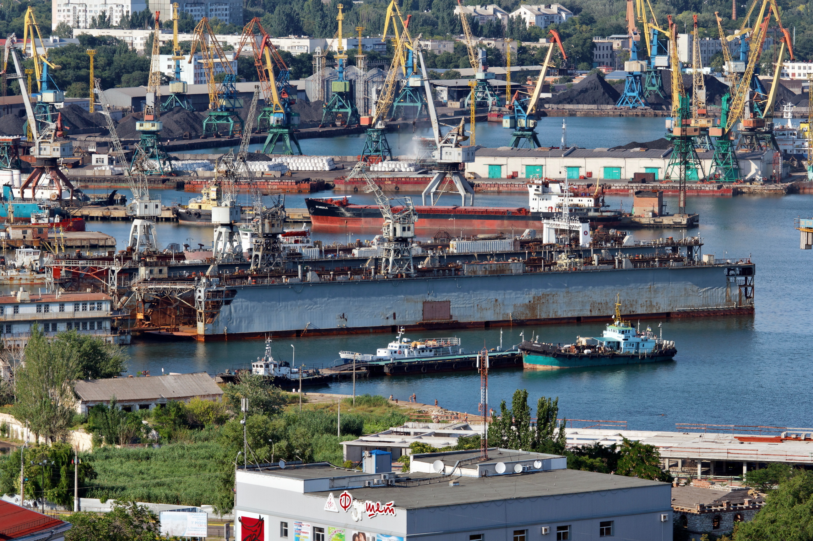 Kerch. Port. Floating dock